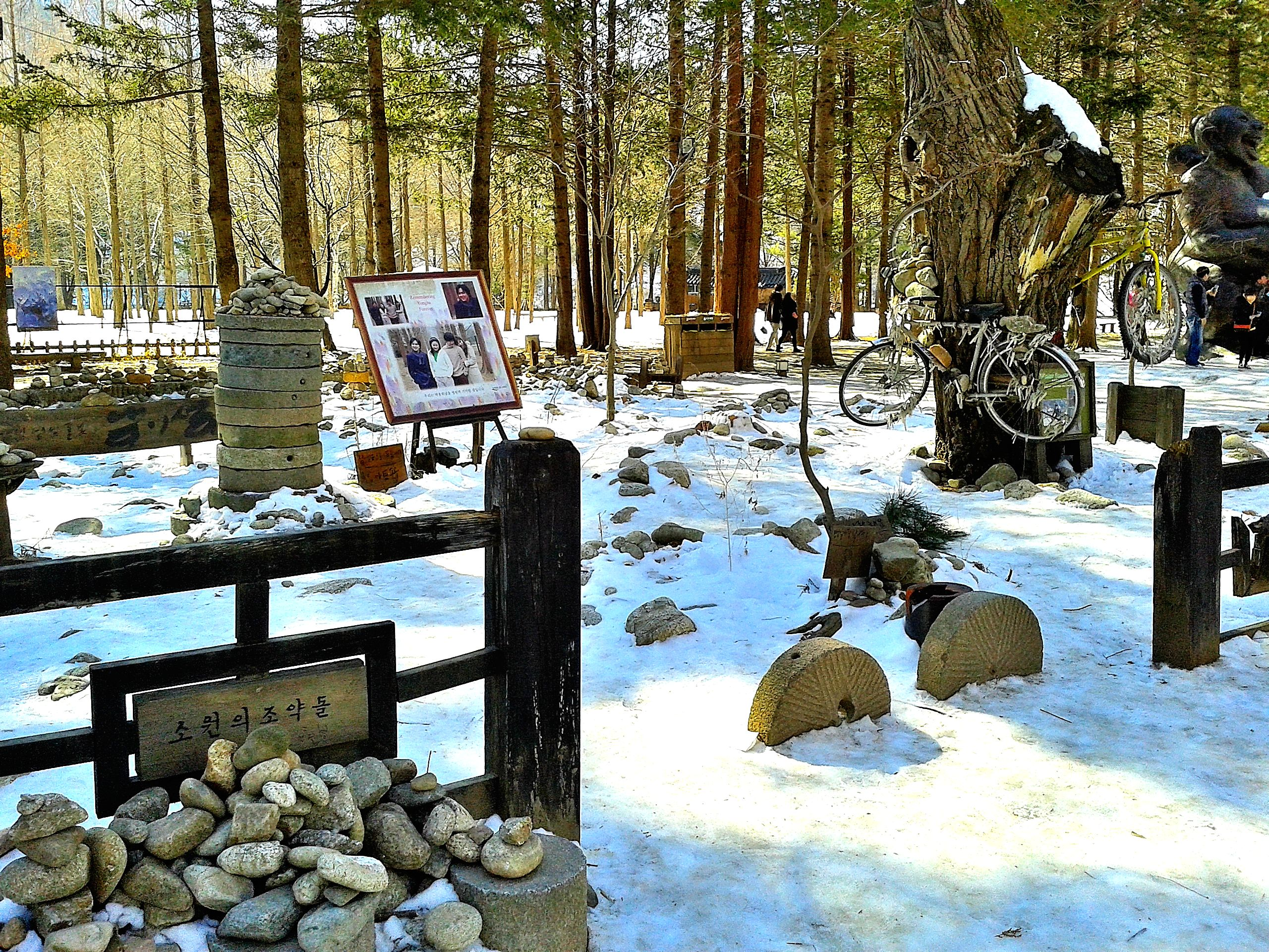 Winter Sonata